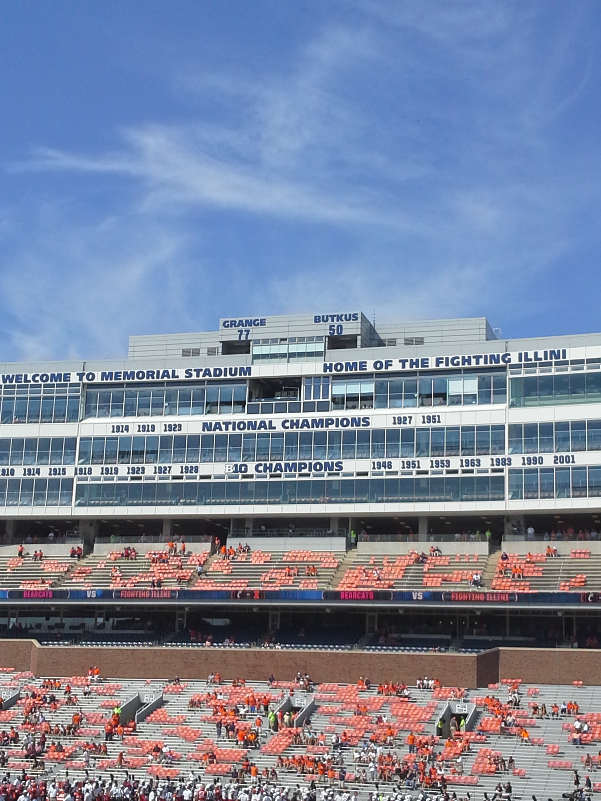 View of the new lettering at Memorial Stadium on the campus of the University of Illinois at Urbana-Champaign in 2013.